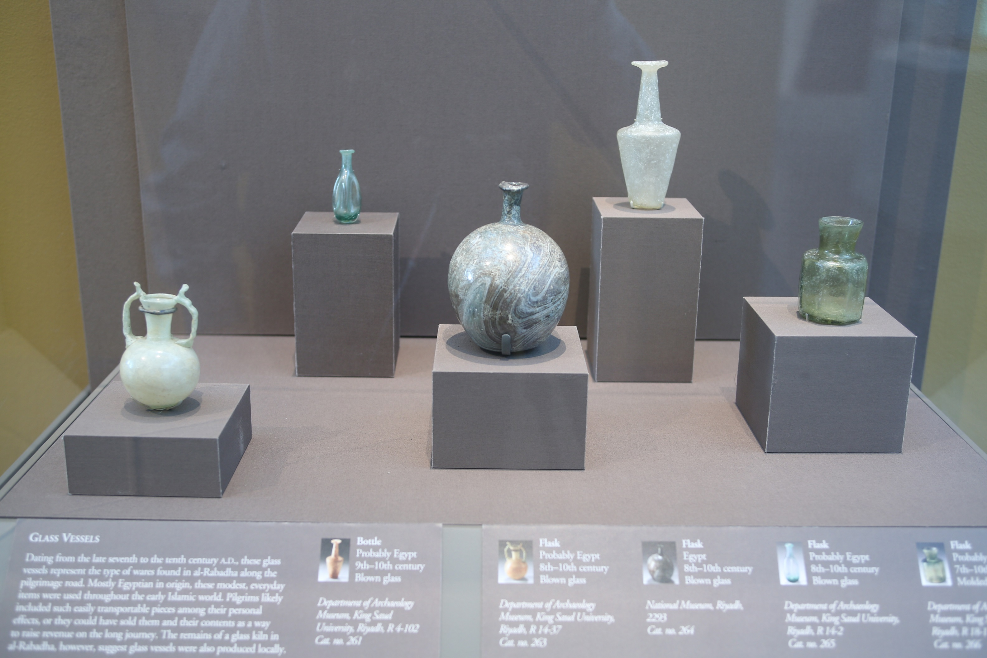 Roads of Arabia exhibit at the Nelson -Atkins Museum of Art Wednesday, April 23, 2014, in Kansas City, Missouri.